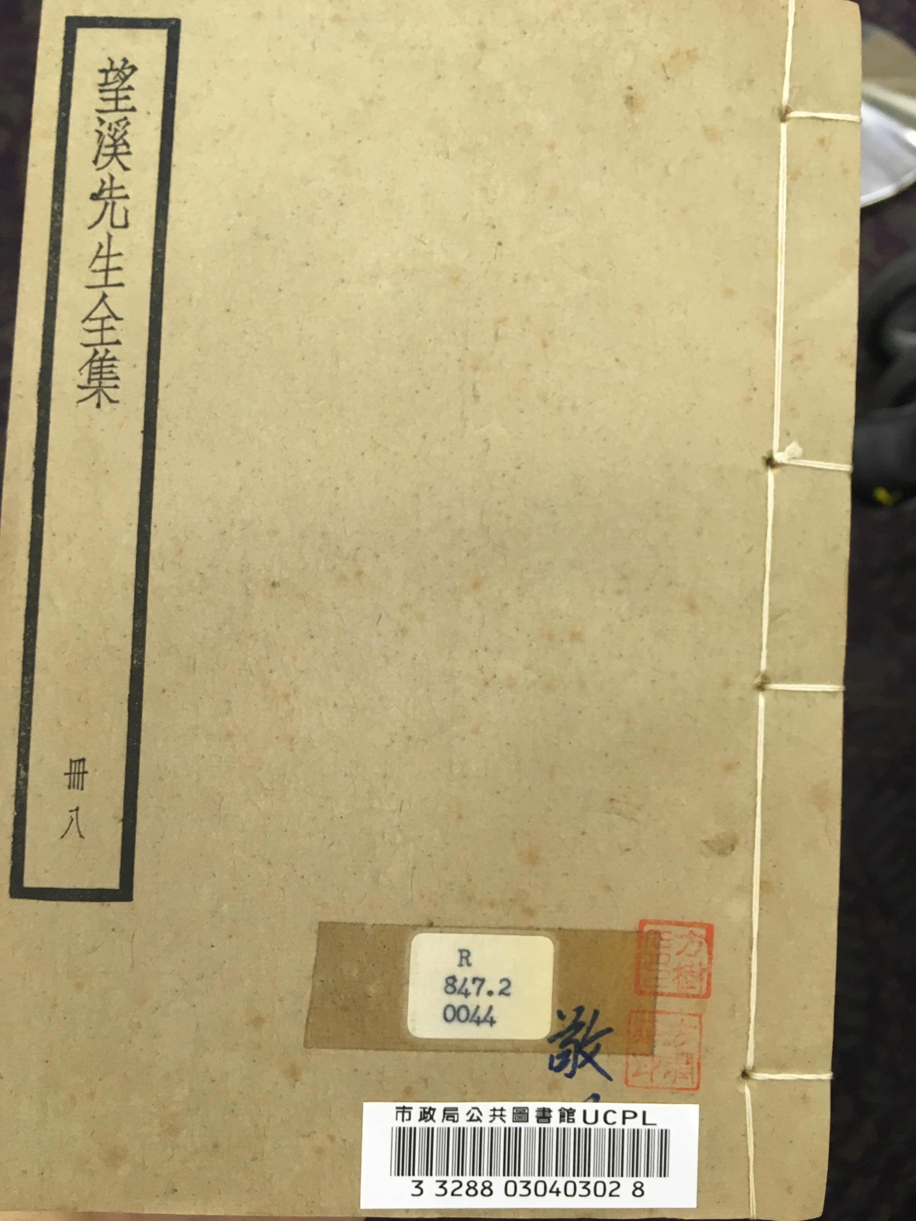 Cover of reprint version of Book 8 of Fang Bao's Wangxi Wenji in 8 volumes at the Hong Kong Central Public Library reference archives.